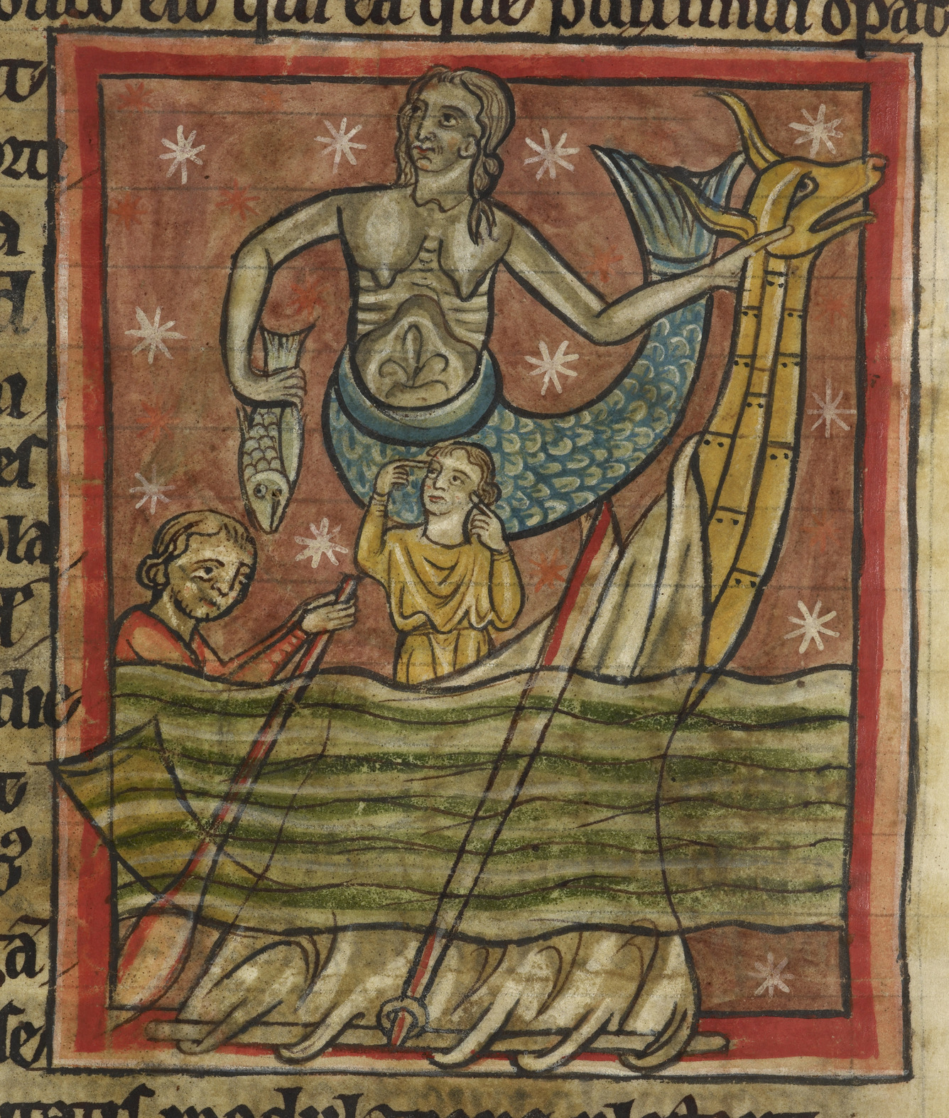 Siren enchants sailors (Miniature) A Siren, portrayed with a fish's tail like a mermaid, lulls sailors to sleep with her song. One sailor stops his ears with his fingers to avoid hearing her.